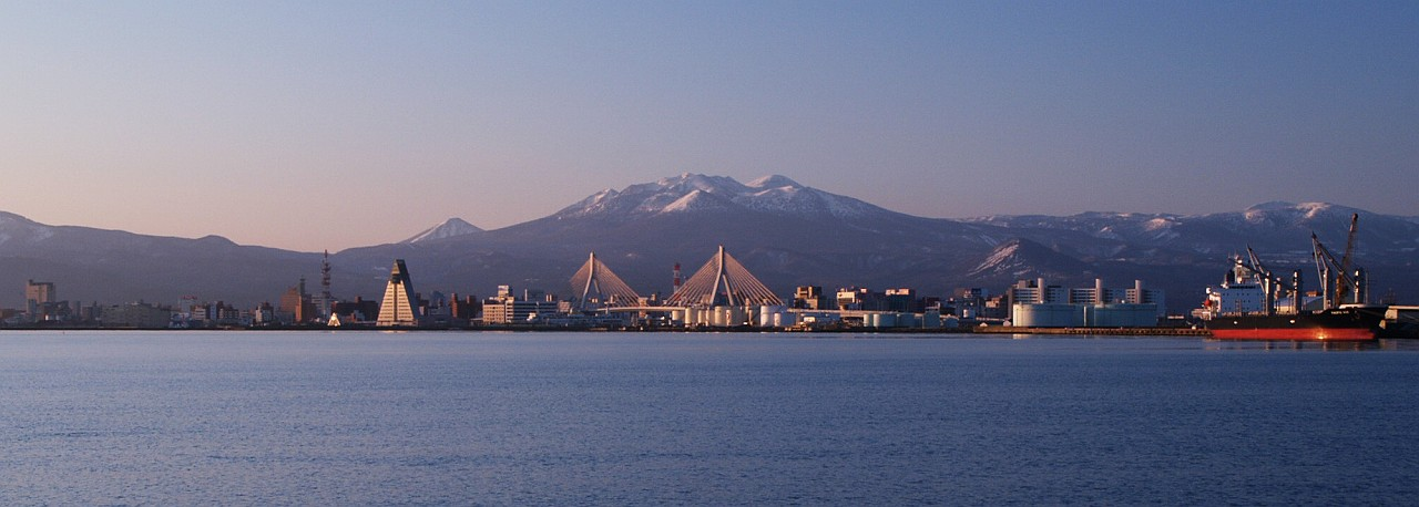 Port of Aomori with Mount Hakkoda as seen from the North in Japan.